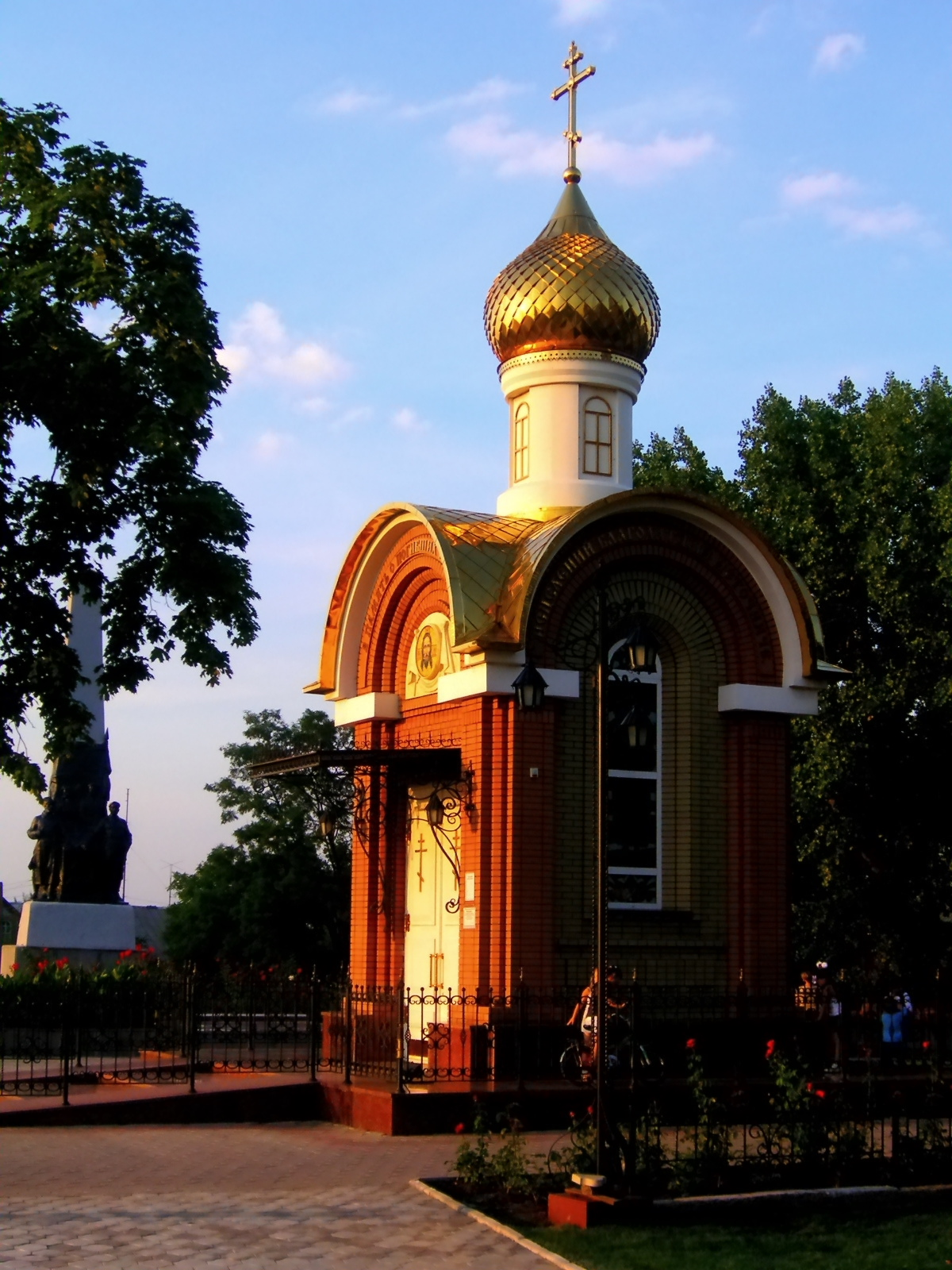 Chapel of Saint Barbara in Dovzhansk